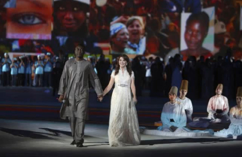 Majida El Roumi performing with Youssou N'dour at the opening ceremony of the "Jeux Olympiques de la Francophonie" in Beirut.